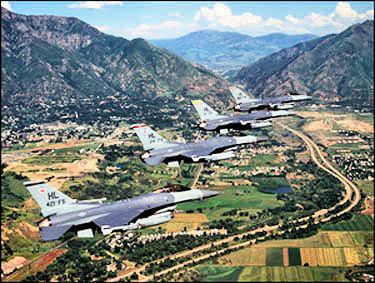 F-16s of the 388th Operations Group